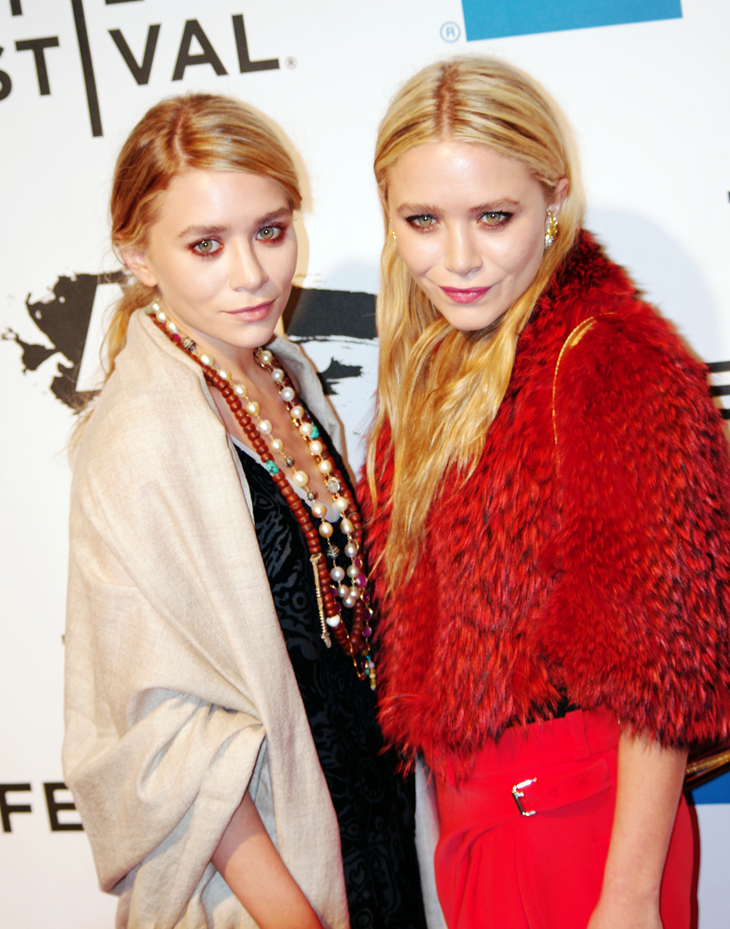 Ashley Olsen and Mary-Kate Olsen attending the premiere of The Union at the Tribeca Film Festival.